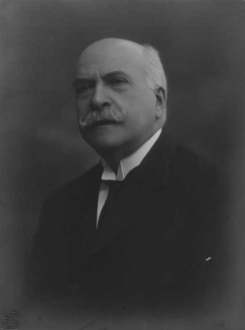 Gran Croce Lazzaro Donati